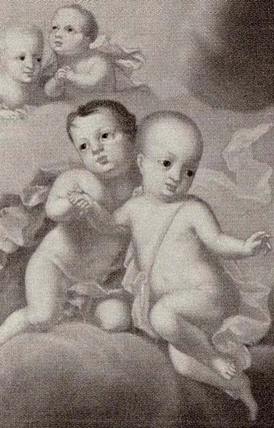 Ulrika Eleonora of Denmark, Queen of Sweden, and her four deceased sons (detail): Princes Gustav, Ulric, Frederick and Carl Gustav of Sweden (all † as infants by 1687), sons of King Carl XI